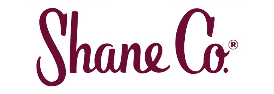 The logo of Shane Company.